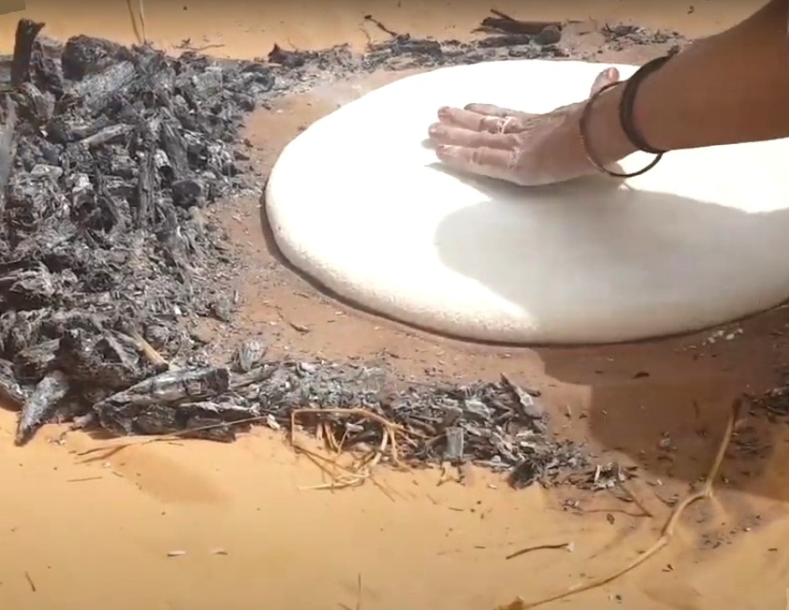 Baking an ash cake, called ""khubz al-jamri" in Arabic